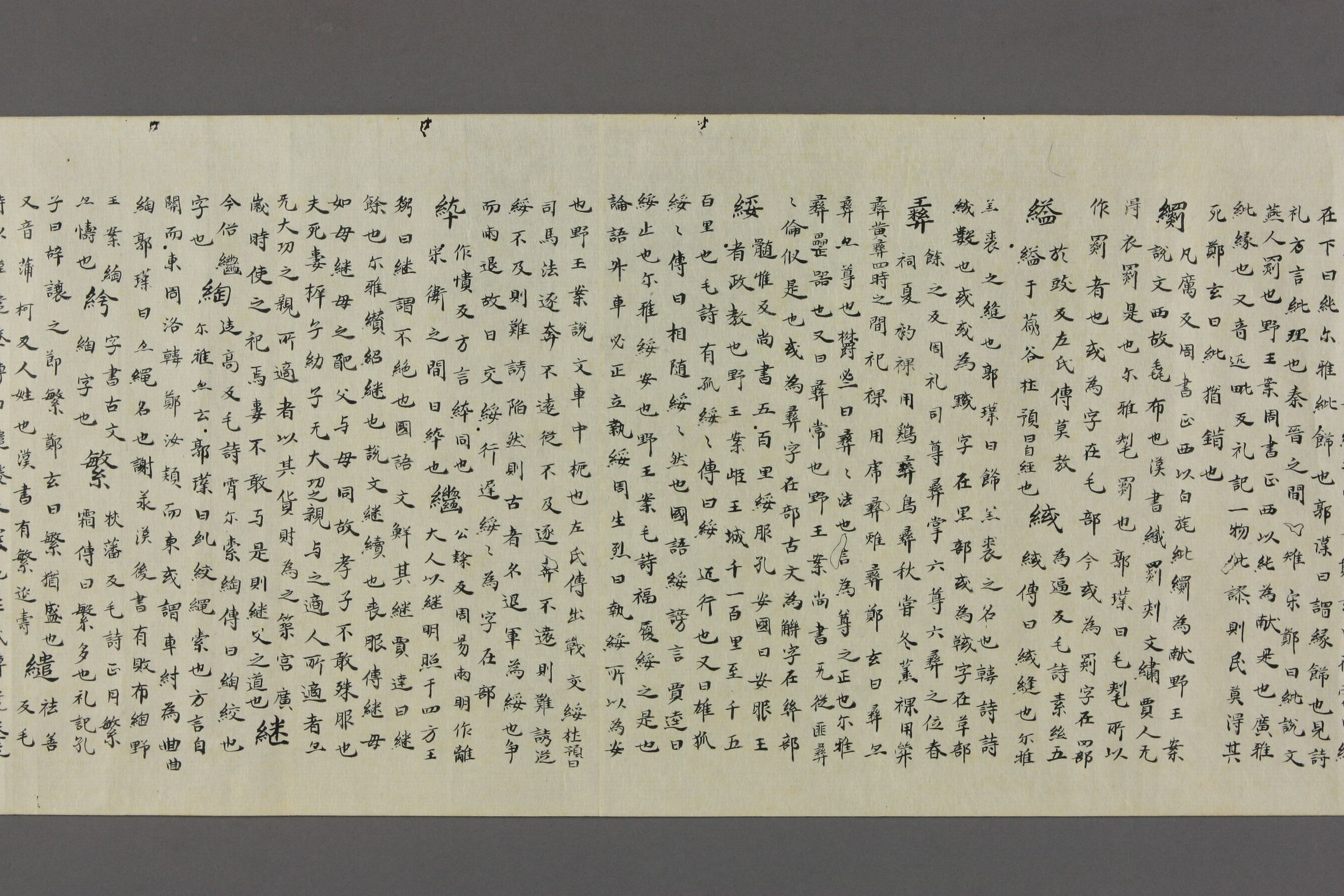 Yupian (玉篇, gyokuhen), second half of vol. 27. Chinese dictionary. One scroll, ink on paper. Located at Ishiyama-dera, Ōtsu, Shiga.